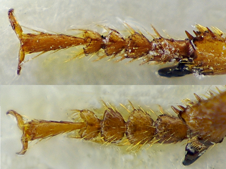 Diachromus germanus, front tarsus, upper:female lower:male